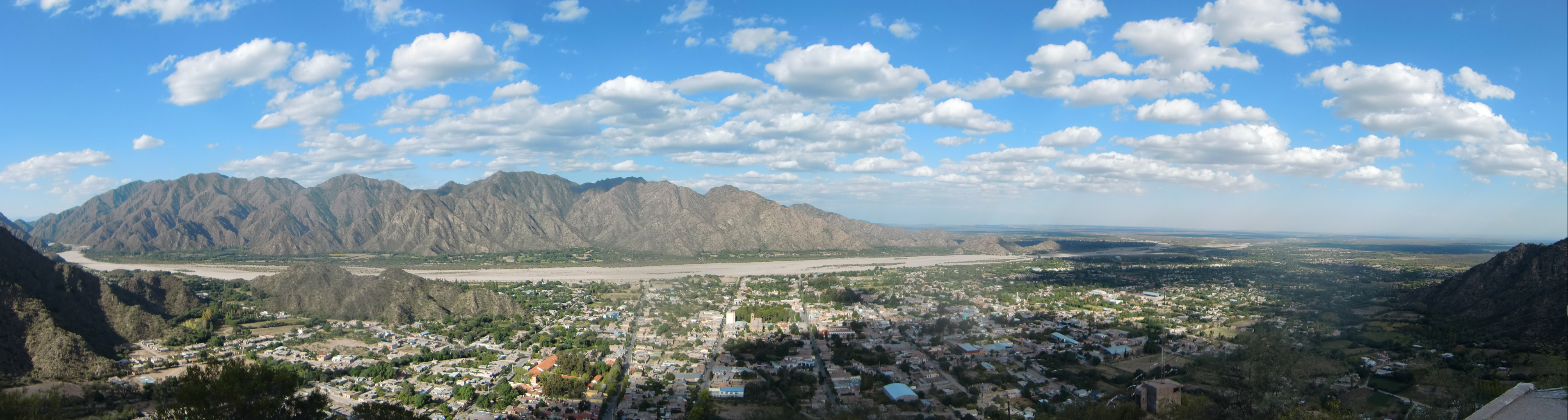 Panoramic view of Belén City, Catamarca, ARG